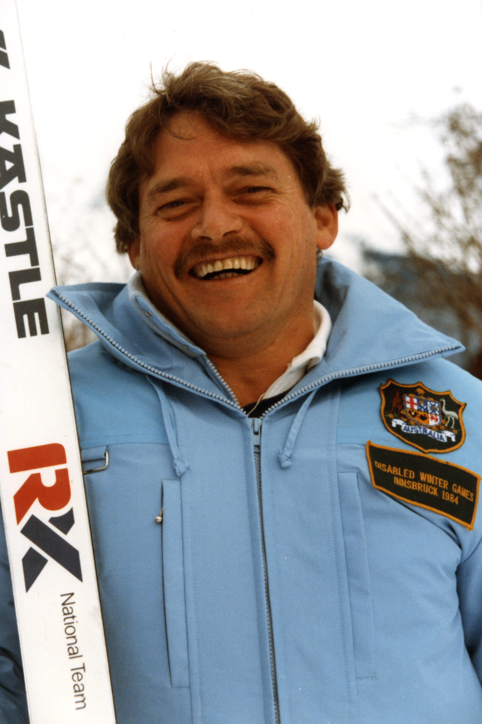 Template:En Australian Paralympian Ron Finneran at the 1984 Winter Games in Innsbruck